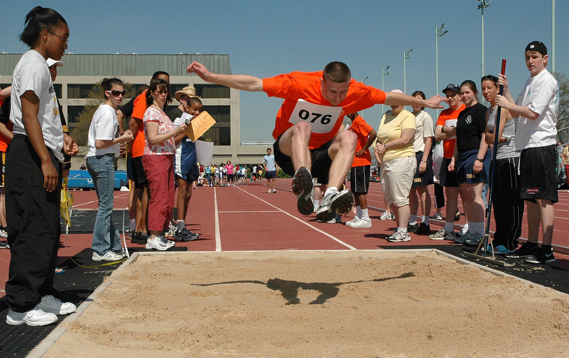 ANNAPOLIS, Md. (April 22, 2007) - A Special Olympics athlete participates in the long jump at the Naval Academy. This was the 39th year the Academy hosted the event, which drew 175 athletes from the surrounding area for two days of aquatics and track and field competition. More than 300 Midshipmen, active duty service members, and Annapolis-area high school students volunteered as event staff and athlete escorts for the event. U.S. Navy photo by Mass Communication Specialist Seaman Apprentice Matthew A. Ebarb (RELEASED)